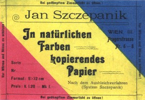 A label of the packet of sensitive paper for colour photography which was invented by Jan Szczepanik.